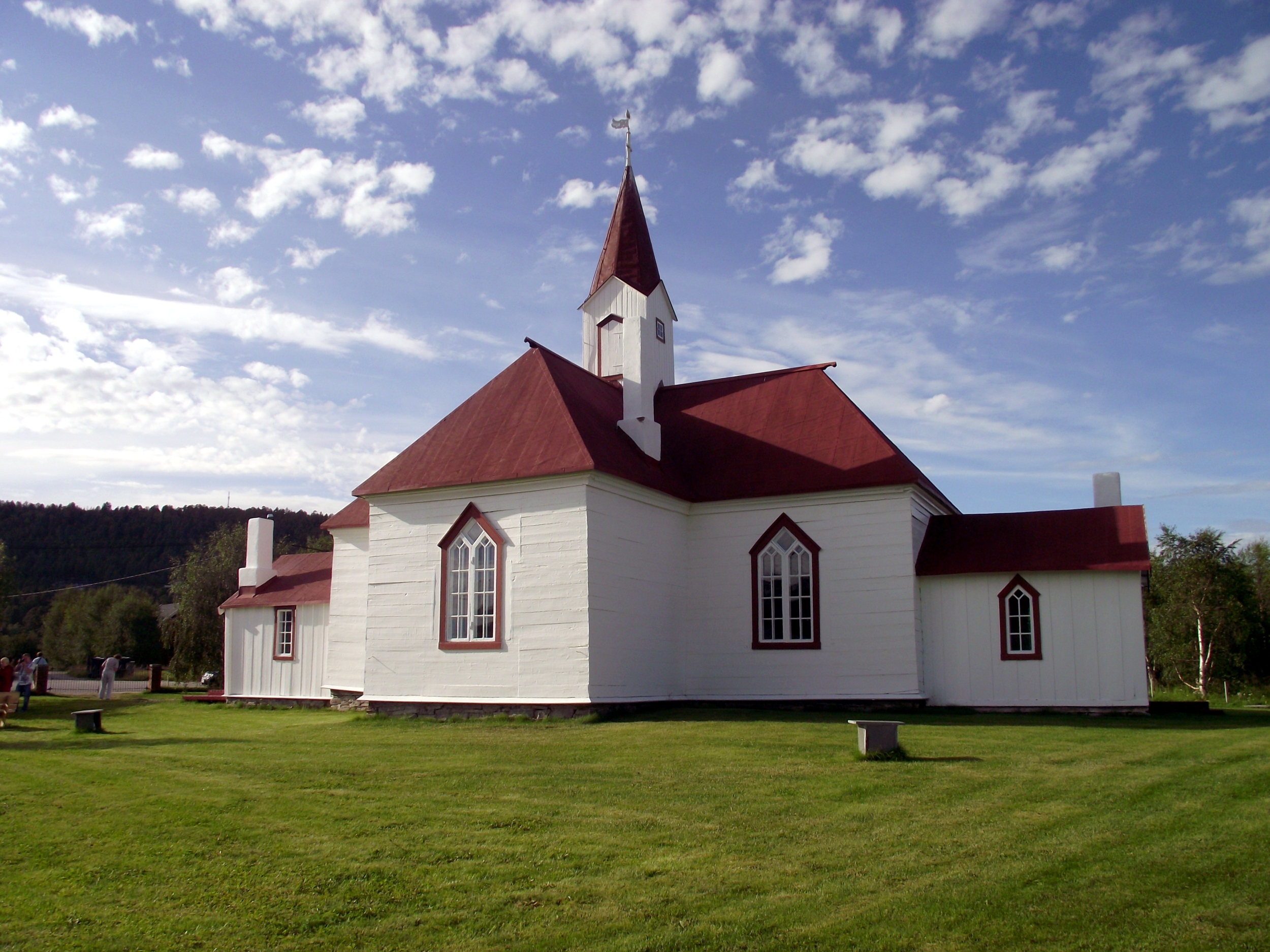 Old church of KarasjokNorsk bokmål: Karasjok gamle kirke